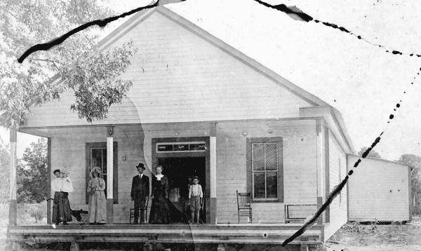 Post Office and T.V. Parrish's store, Hildreth FL